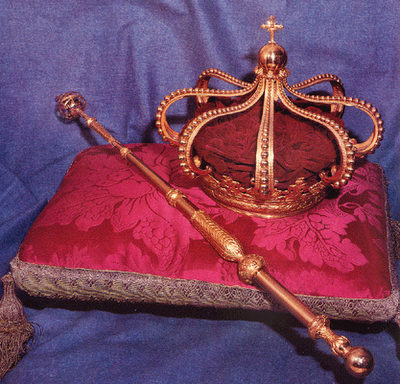 A Piece of the Portuguese Crown Jewels.